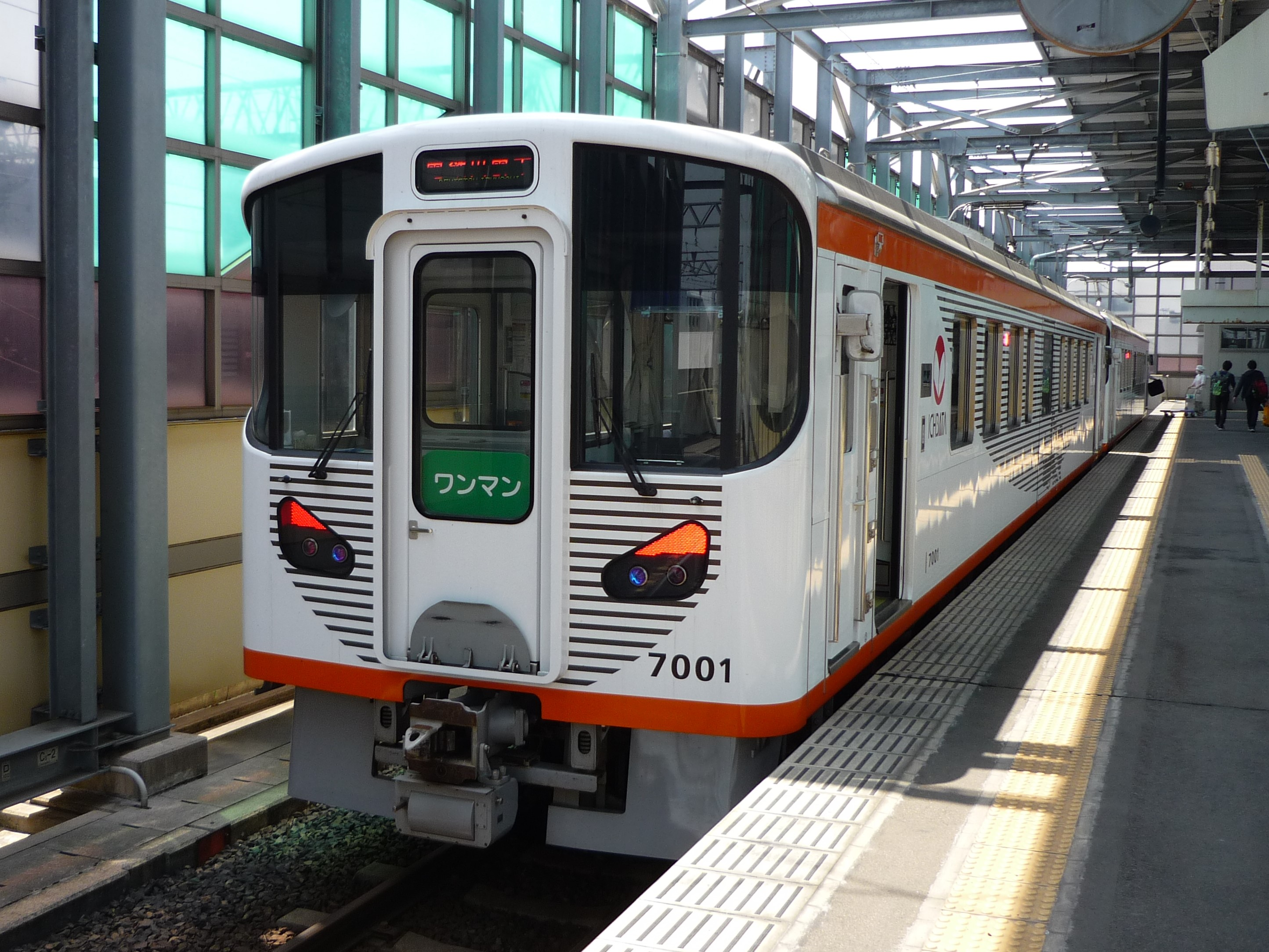 Ichibata Electric Railway 7000 series EMU car 7001 at Izumoshi Station